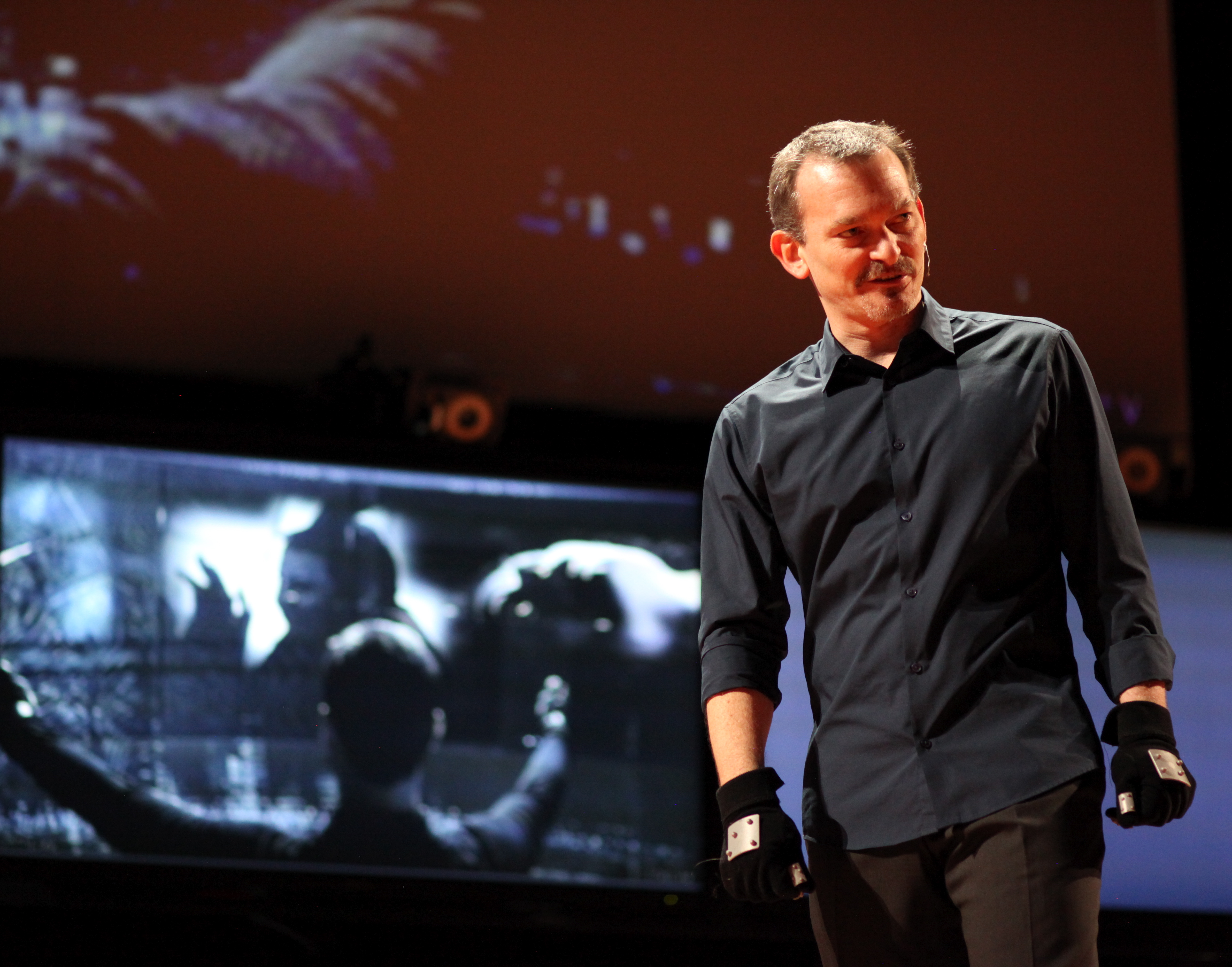 John Underkoffler explains the human-computer interface he first designed as part of the advisory work for the film Minority Report. The system, called "g-speak", is now real and working. Note the gloves Underkoffler is wearing.